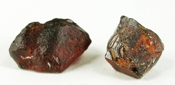 Pyrope (Var.: Rhodolite) Locality: Lokirima, Lodwar, Turkana District, Rift Valley Province, Kenya (Locality at ) Size: 1.5 x 0.9 x 0.8 (largest). Rhodolite is rare rose-red gem variety of pyrope garnet and is used as a gemstone. These two, sharp, floater crystals are from an uncommon locality - Lokirima, Kenya. They have a nice rose-red color, when front-lit, but glow cherry-red when backlit. Weigh 7.95 and 6.96 carats or 14.91 carats total. Ex. Irv Brown Thumbnail Collection. Very rare on the market.